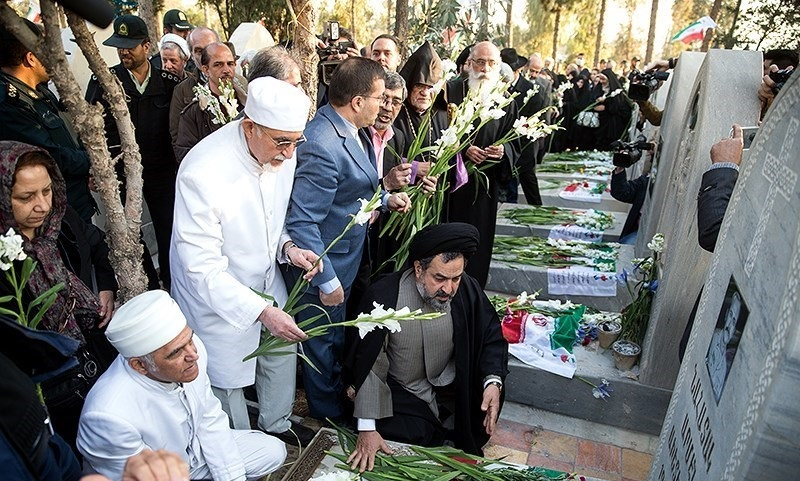 Armenian victims of Iran-Iraq war graves in Tehran